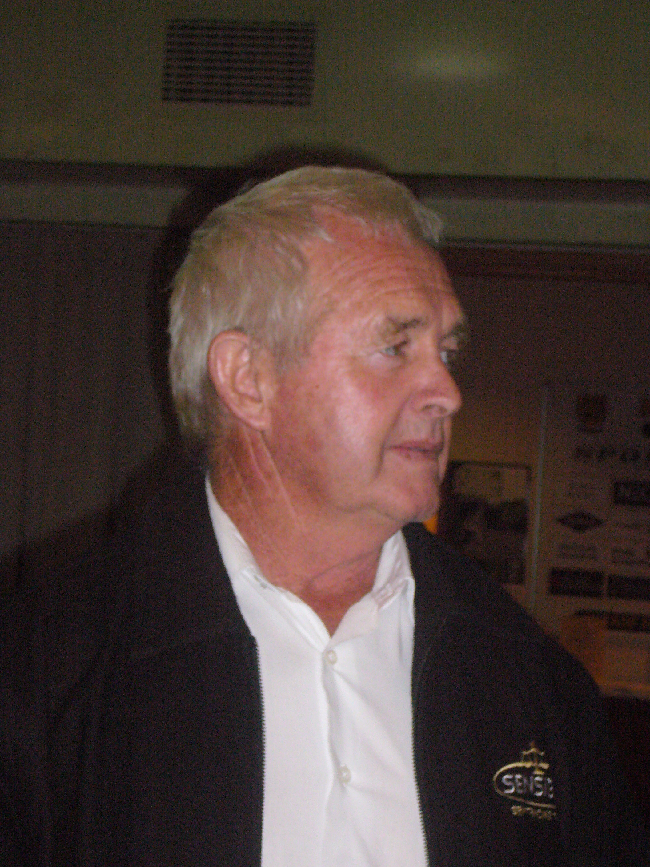 Garth McVicar at a Sensible Sentencing Trust meeting in Christchurch, New Zealand during the 2013 Christchurch East by-election.